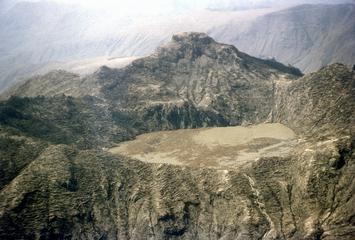 038Ash covered St Helens lake_resize